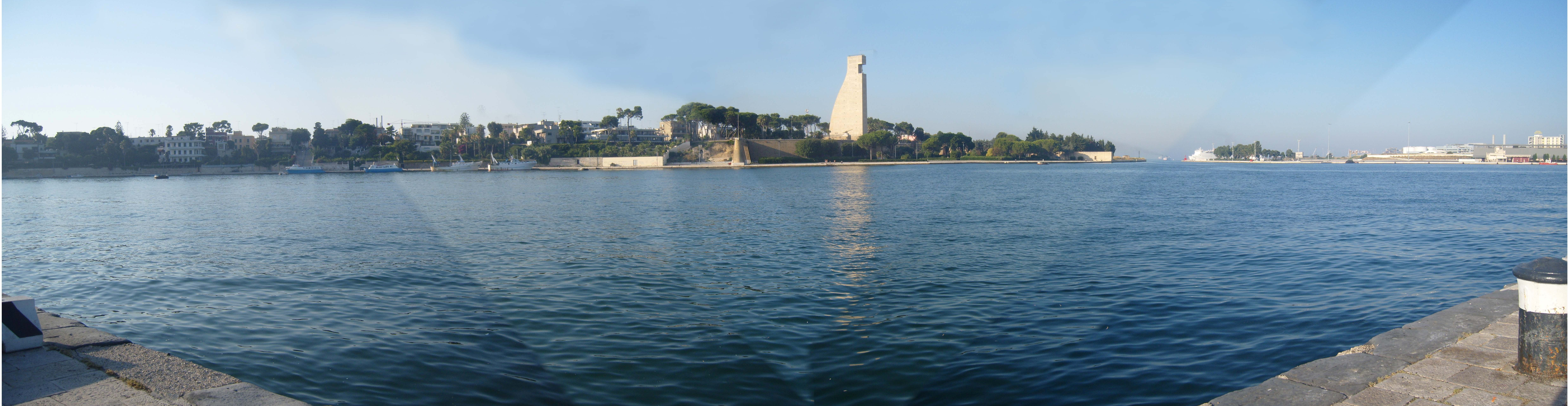 Panoramic view of Brindisi harbour